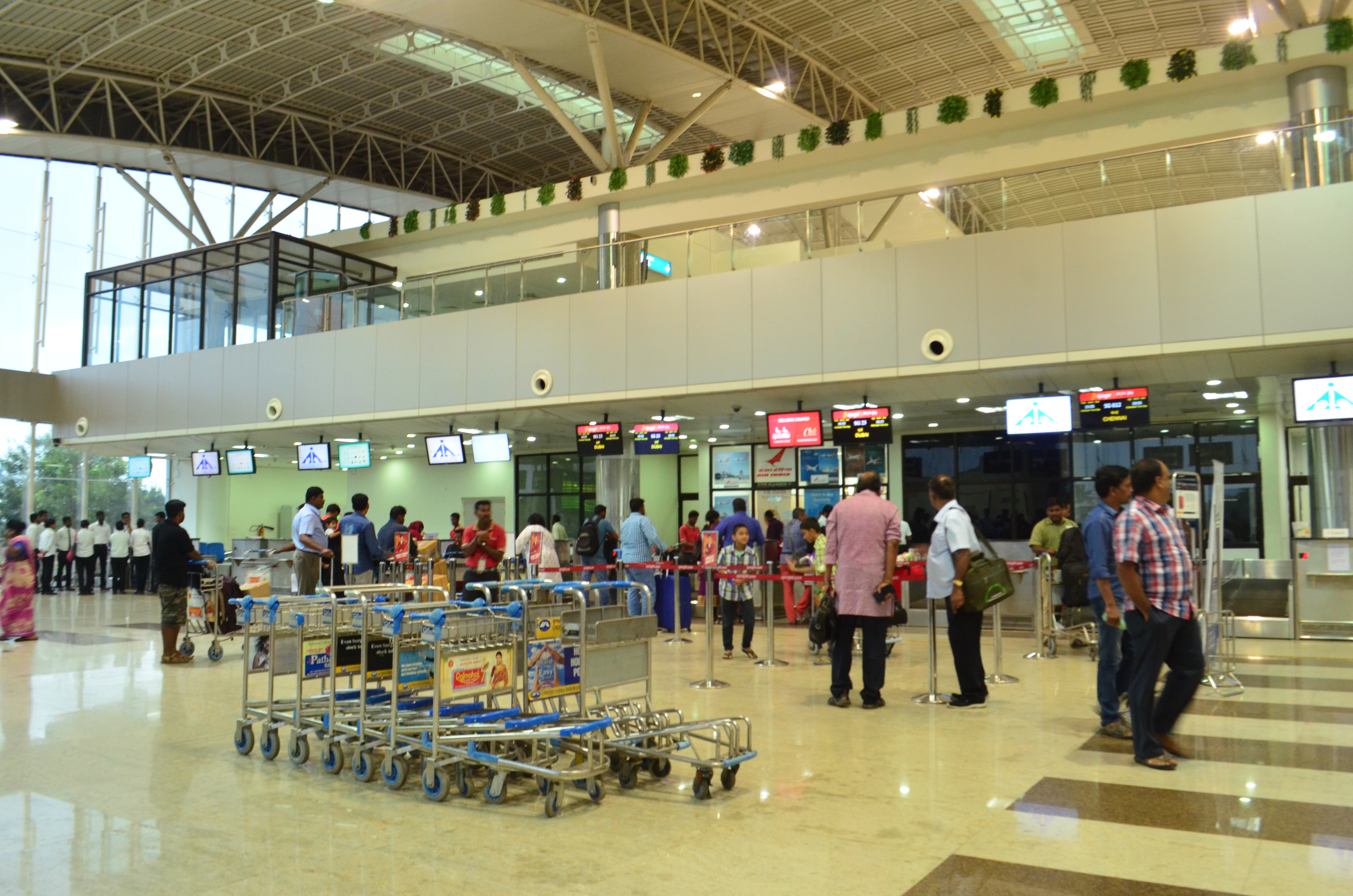 Madurai Airport in 2016